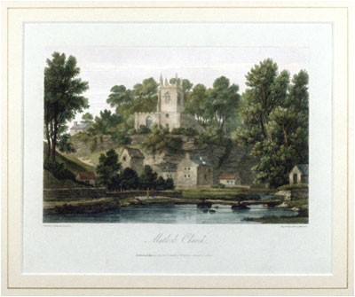 Matlock church in Derbyshire. Artist:Joseph FARINGTON Engraver:John BYRNE Engraver:Letitia BYRNE Title Matlock Church Publication Title Britannia Depicta, Part VI, Derbyshire Date published 15 May 1817 Medium Coloured engraving Lettering below image: [left] Drawn by J. Farington Esq.r R.A. [right] Engraved by John & Letitia Byrne. / Matlock Church. / Published May 15, 1817, by T. Cadell & W. Davies, Strand, London Published T. Cadell & W. Davies, Strand, London, 15 May 1817 Acquisition Purchased from Sotheby's by GAC, 22 February 1977 Number 13032